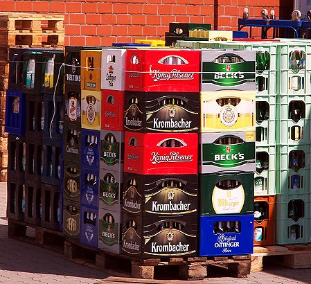 Various bottle crates in Germany